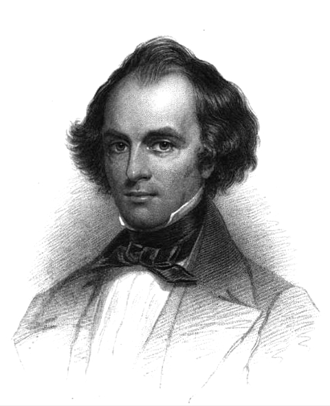 Engraving of American author Nathaniel Hawthorne. Taken from Brief Biographies: With Steel Portraits by Samuel Smiles. Published by Ticknor and Fields, 1861.